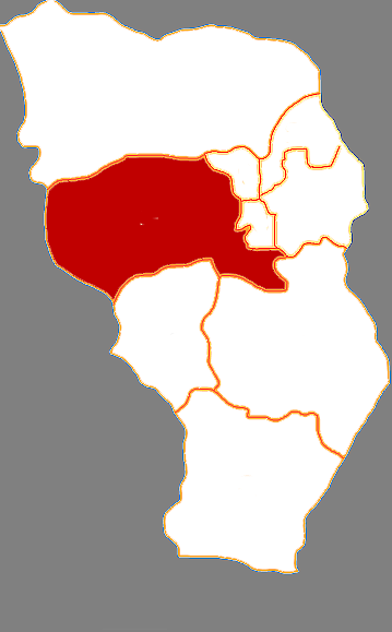 Locator map of Tumed Left Banner in Hohhot City, Inner Mongolia, China